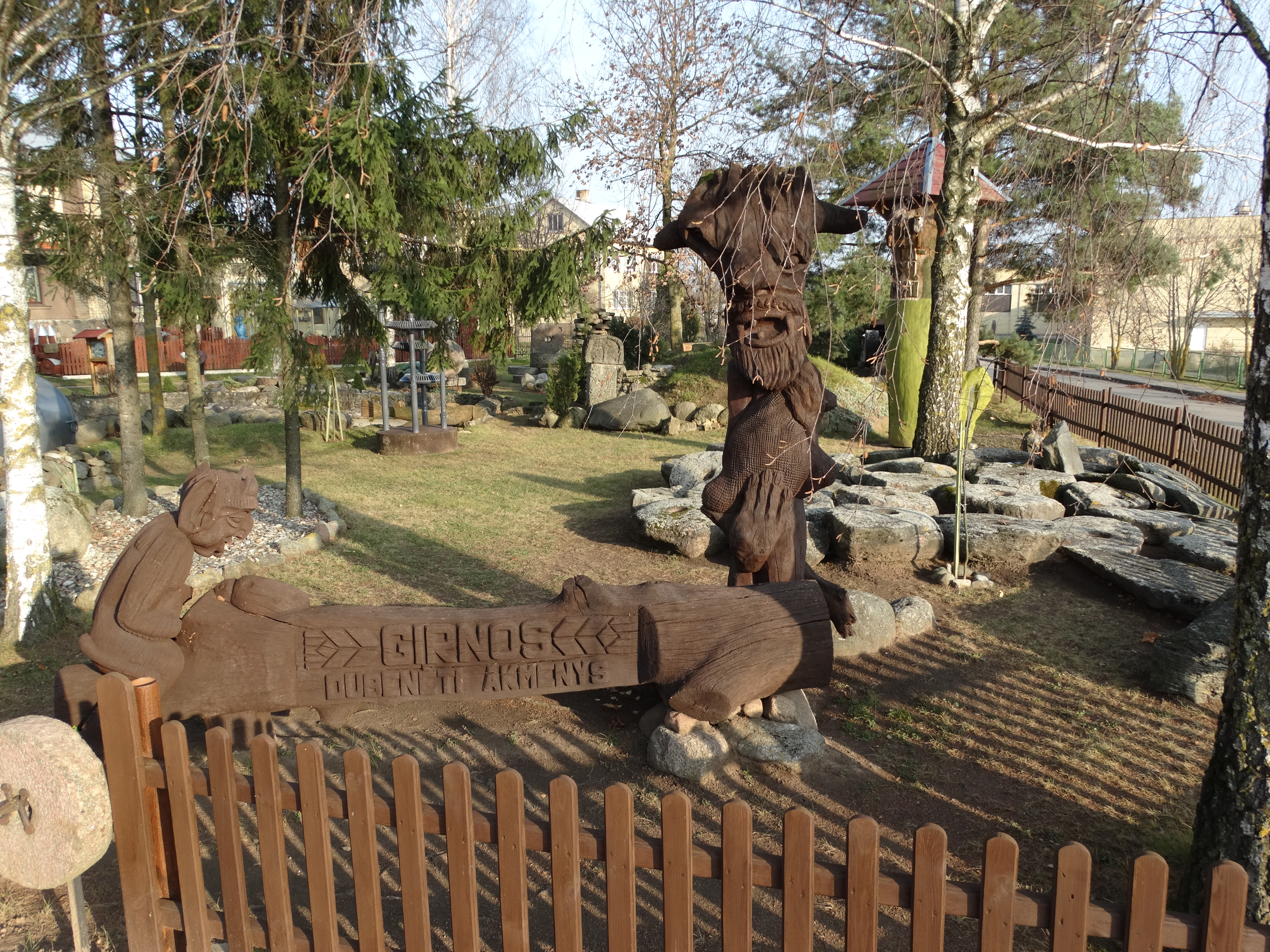 Museum of millstones, Pasvalys, Lithuania